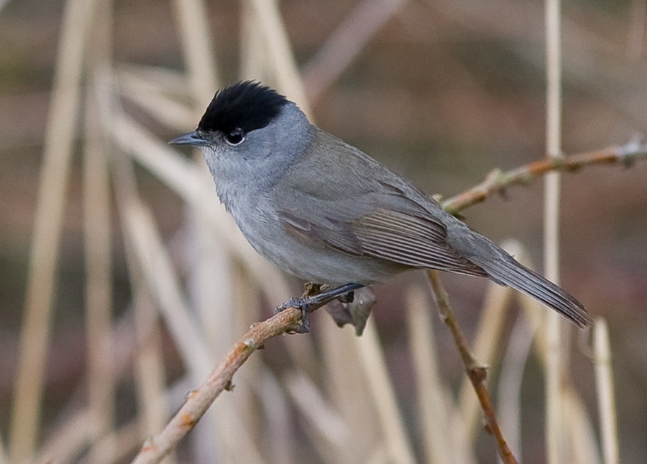 Photographed at RSPB Fowlmere